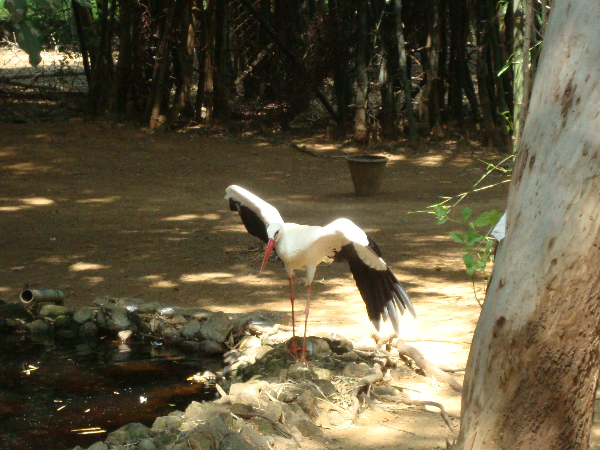 White Stork in Vandaloor Zoo, Chennai.